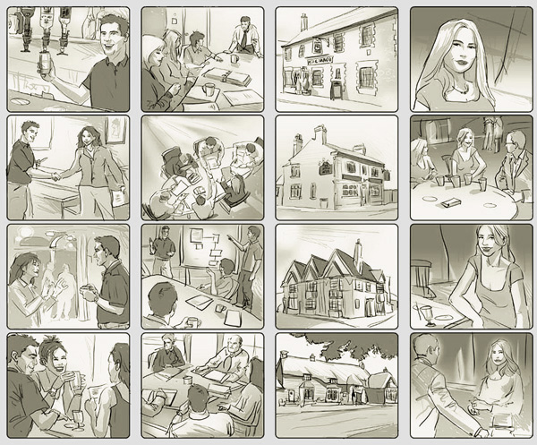 Storyboard example.